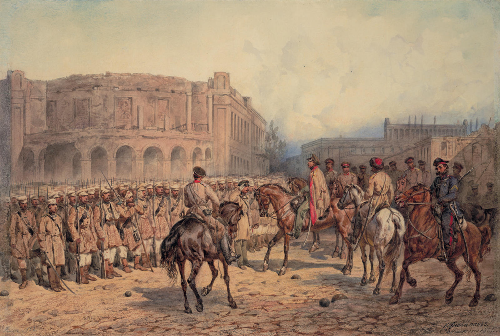 Konstantin Filippov. Scene from the defense of Sebastopol. Kaluga Art Museum.